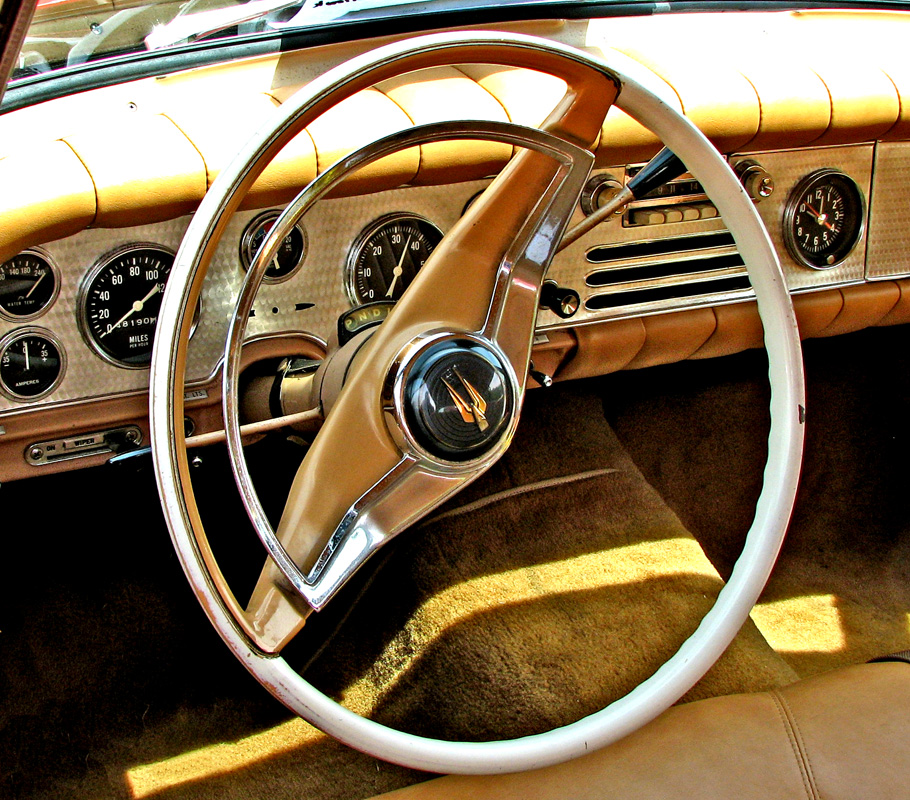 Seen at the Piketon (Ohio) Dogwood Festival car show.